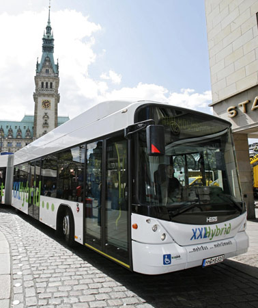 Hybrid Bi- Articulated Bus